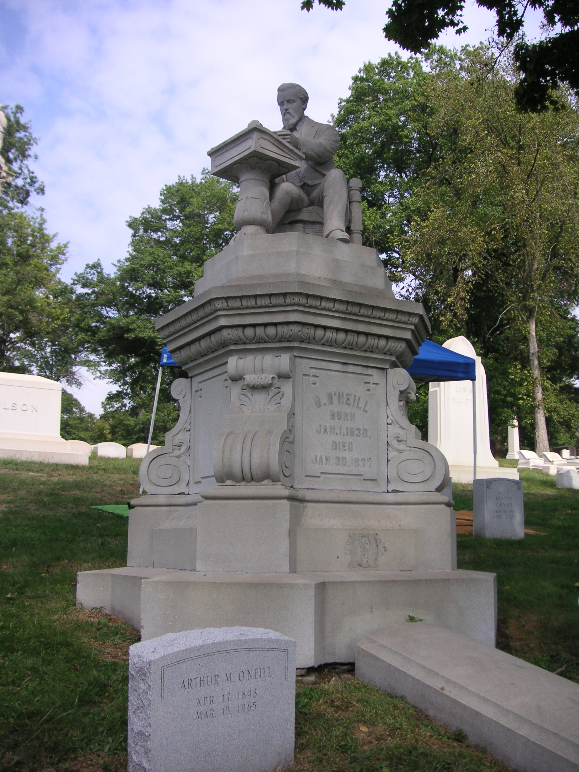 Gravesite of Daniel O'Neill, editor and owner of the Pittsburgh Gazette newpaper